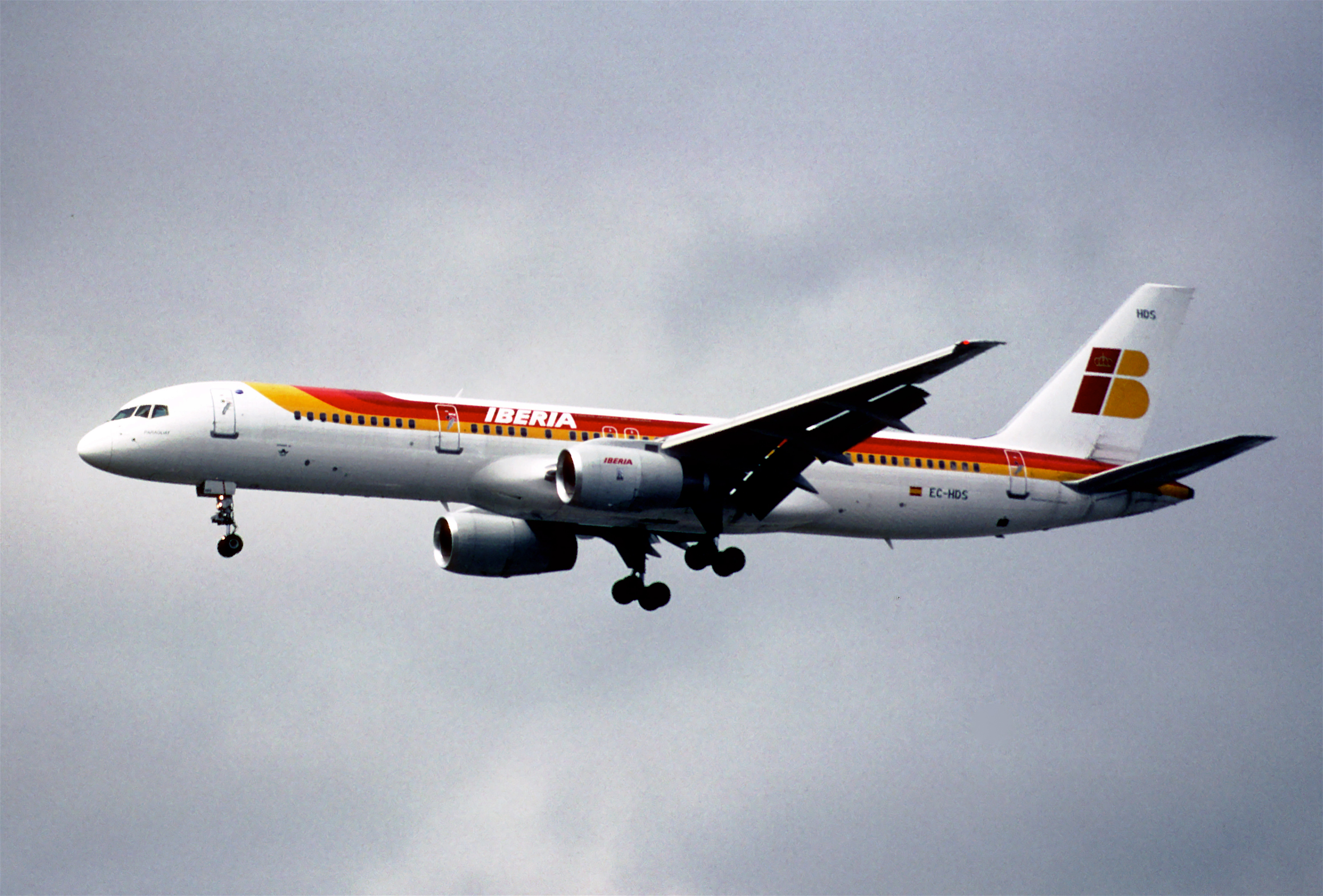 First flight: November 18, 1999... 02/12/1999 Iberia EC-HDS named Paraguay 31/07/2006 Audeli EC-HDS 01/08/2007 Privilege EC-HDS named Milagros Diaz